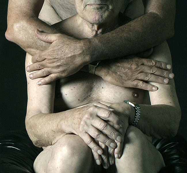 Oldmale couple